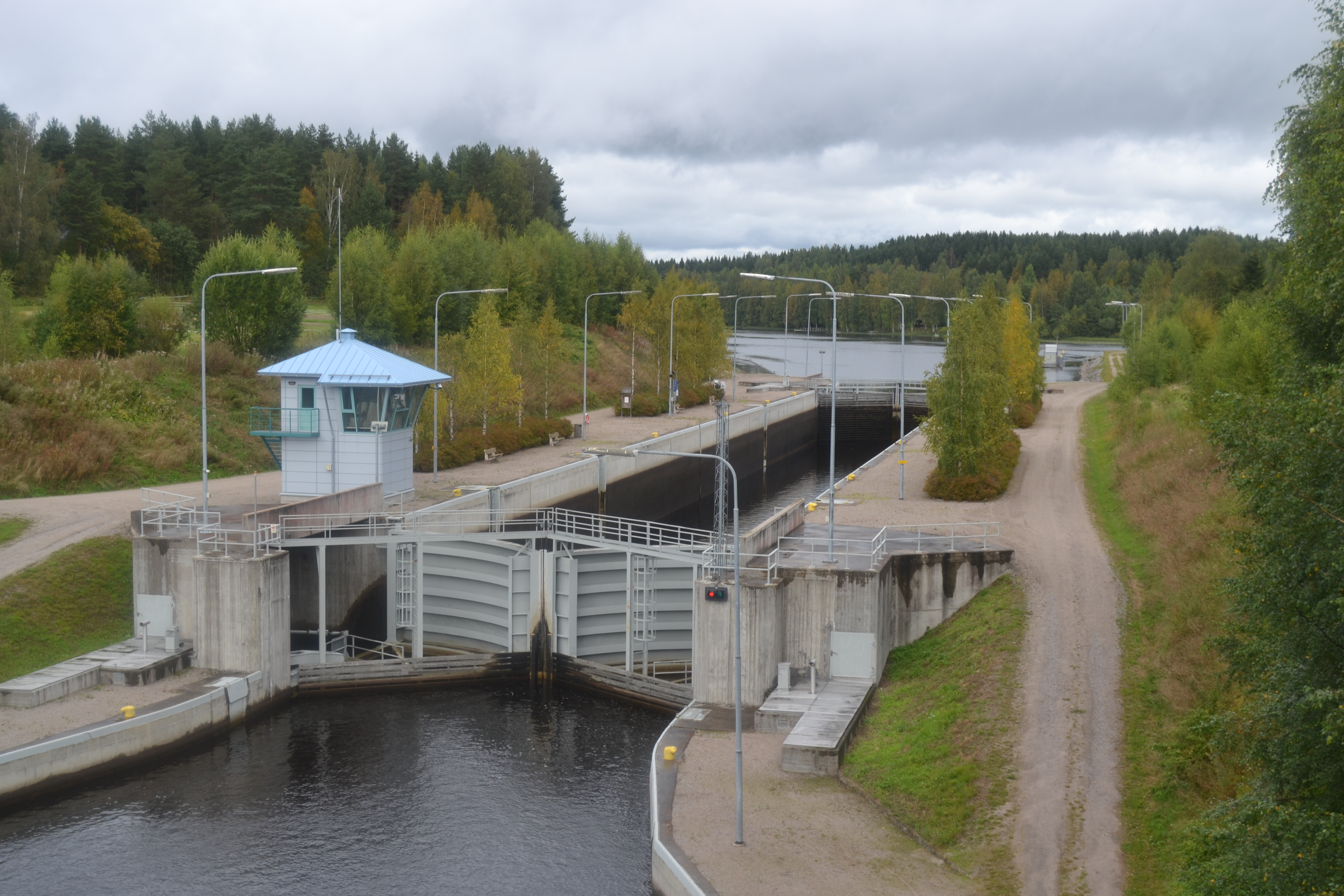 Kuhankoski canal in Laukaa, Finland